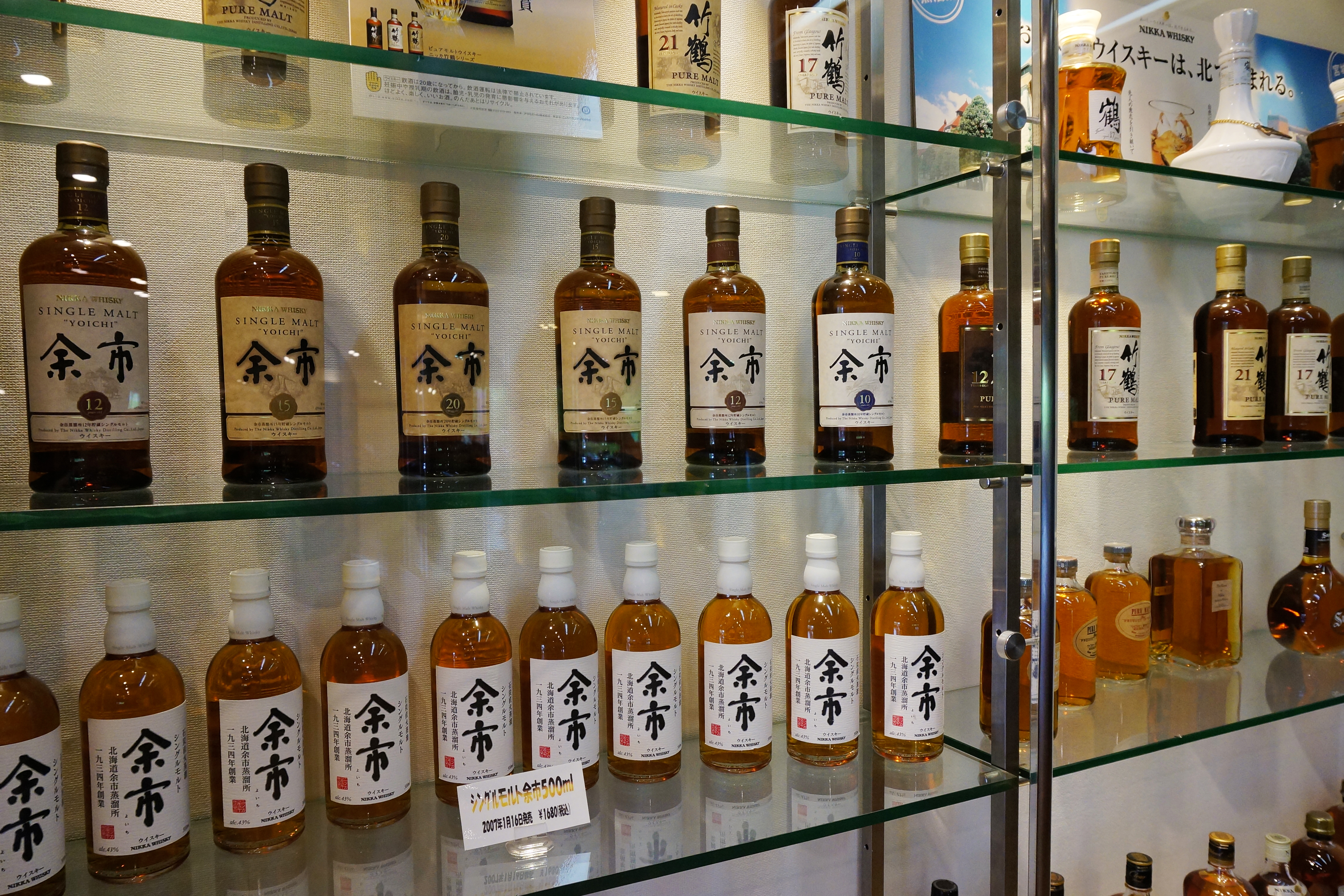 Nikka Wisky Yoichi Distillery in Yoichi, Hokkaido prefecture, Japan.